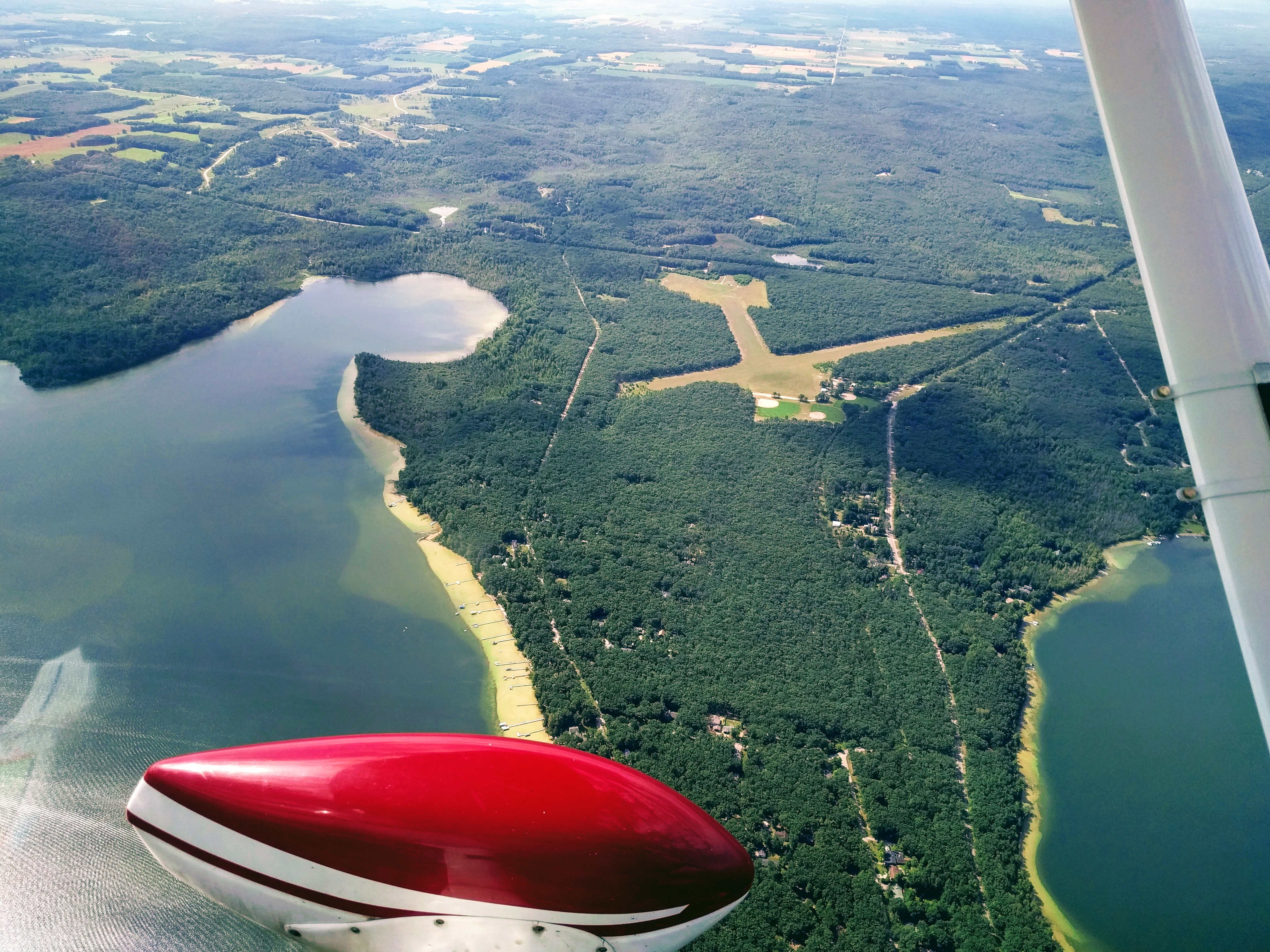 Aerial photo of Green Lake Airport (Y88) in Interlochen, MI, taken July 2017